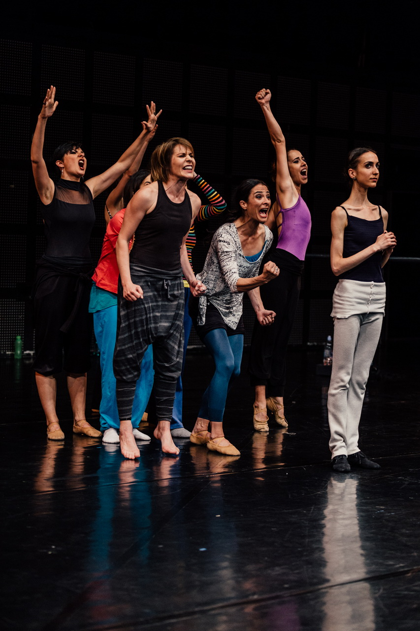 Ballerinas, New Dance Forum, Serbian Nacional Theatre, Novi Sad, season 2014-15, director Milena Bogavac Srpski (latinica): Balerine, Forum za novi ples, Srpsko narodno pozorište, Novi Sad, sezona 2014/15. reditelj Milena Bogavac Српски (ћирилица): Балерине, Форум за нови плес, Српско народно позориште, Нови Сад, сезона 2014/15. редитељ Милена Богавац